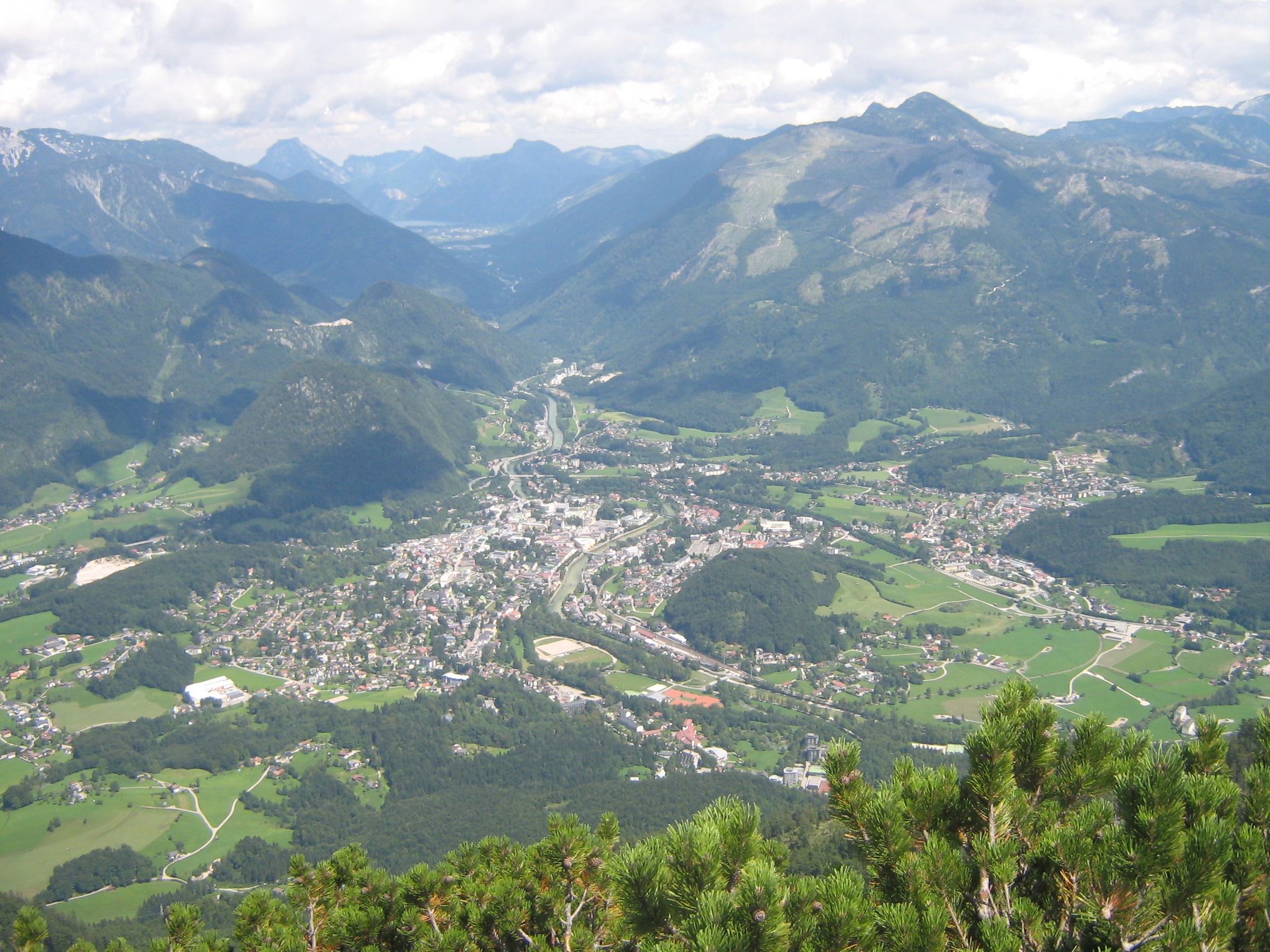 View from Katrin, a 1542 m high mountain in Upper Austria, down to Bad Ischl.